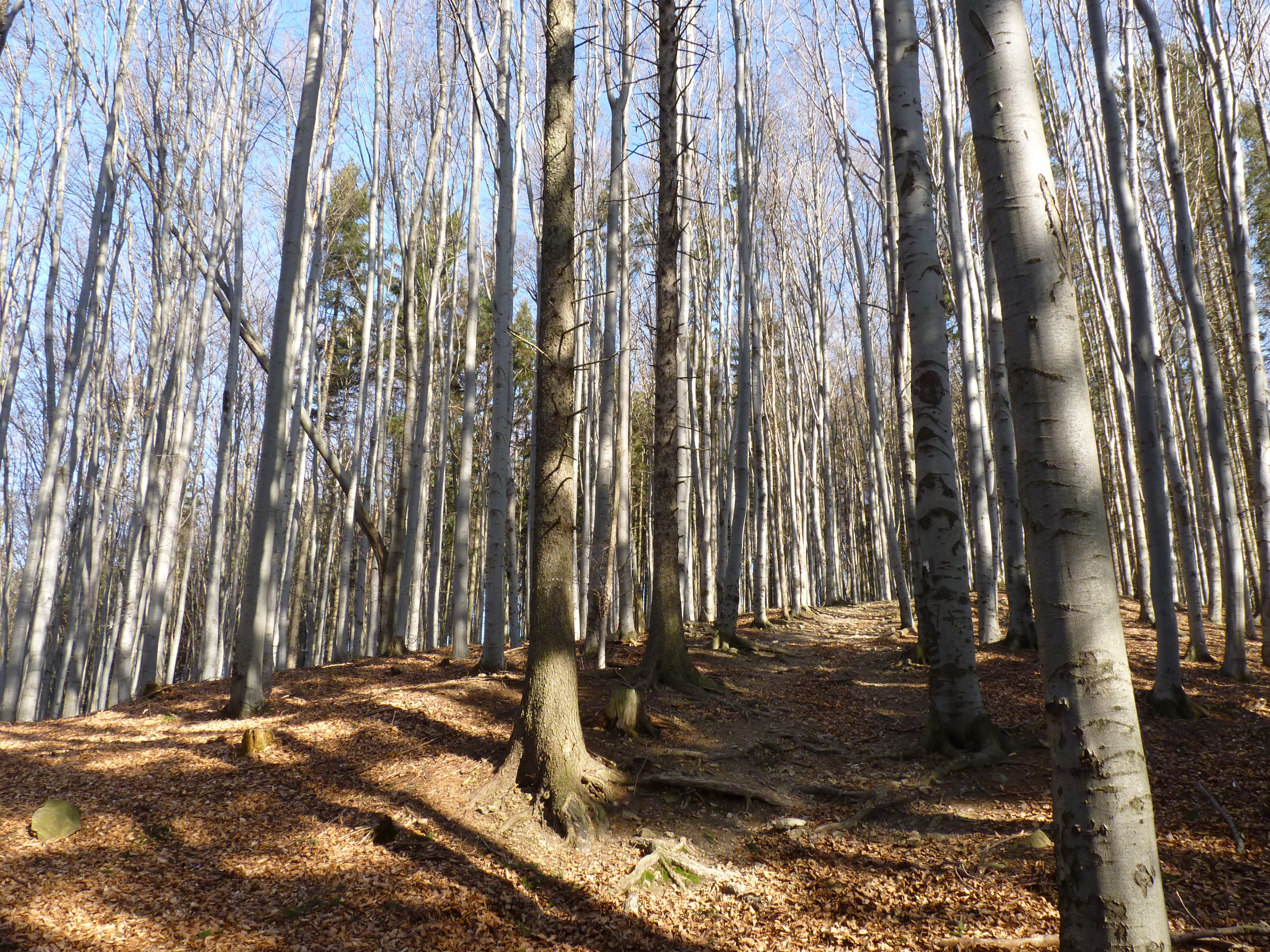 Nature reserve Obřany, Kroměříž District, Zlín Region, Czech Republic Project: Chráněná území